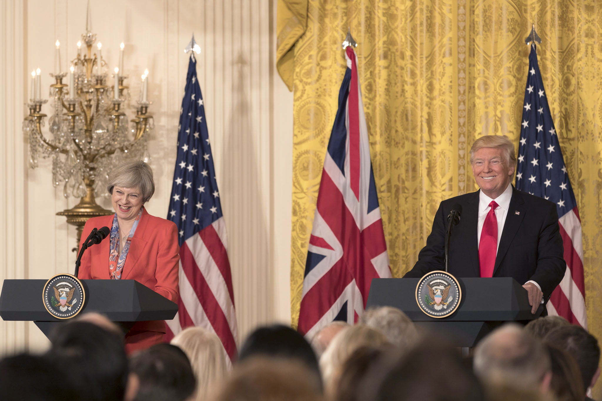 President Donald Trump and British Prime Minister Theresa May appear at a joint press conference, Friday, Jan. 27, 2017, in the East Room of the White House in Washington, D.C. (Official White House Photo by Shealah Craighead)